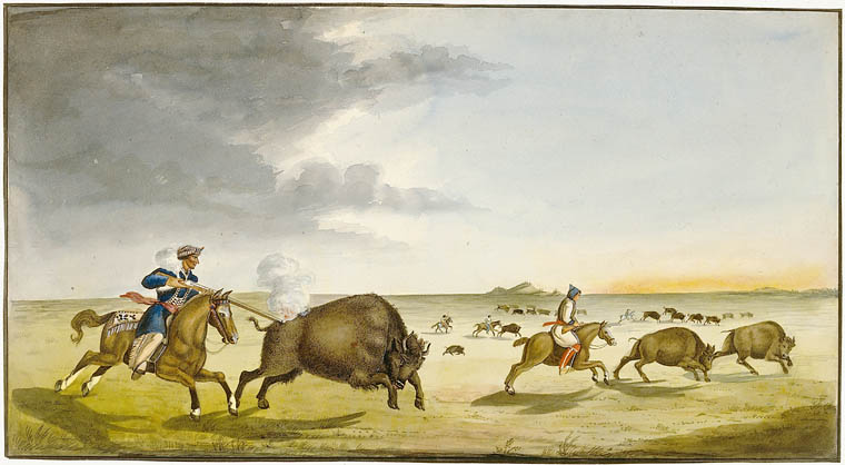 Metis hunting buffalo in the Summer 1822 by Peter Rindisbacher, (1806-1834).